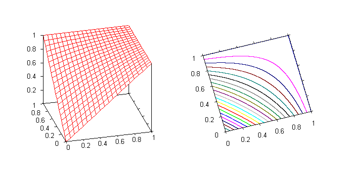 A 3D and contour graph of the Einstein sum, the function for velocity addition in special relativity, in units of the speed of light